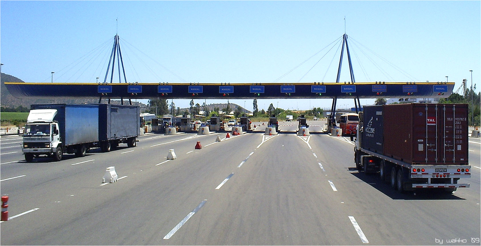 Toll station at Casablanca, Ruta 68, Región de Valparaíso, Chile.